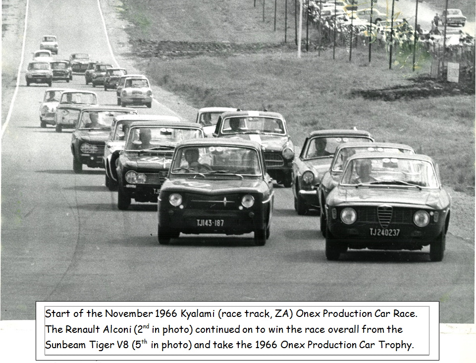 Start of the November 1966 Kyalami (Auto Race Track Johannesburg, South Africa) Onyx Production Car Race